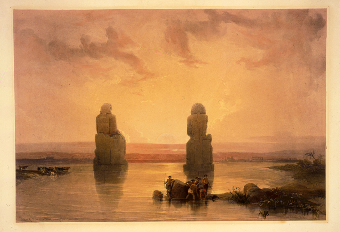 Picture of a print from David Roberts' Egypt & Nubia, issued between 1845 and 1849.